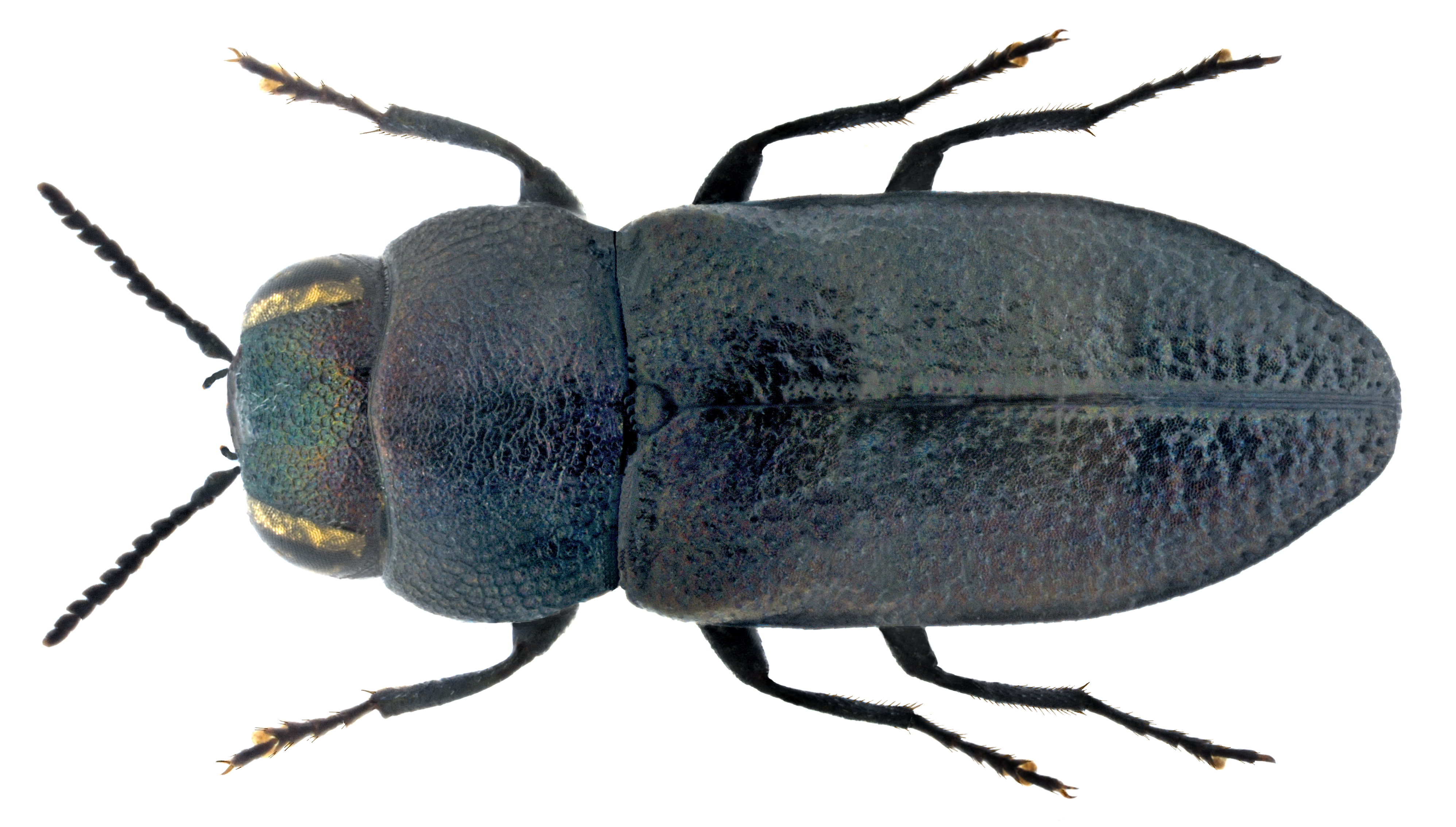 Family: Buprestidae Size: 4,5 mm Location: Turkey, Prov. Antalya, Termessos Nat. Park leg. A.Skale, 3.V.2003; det. M.Niehuis, 2003 Photo: U.Schmidt, 2013